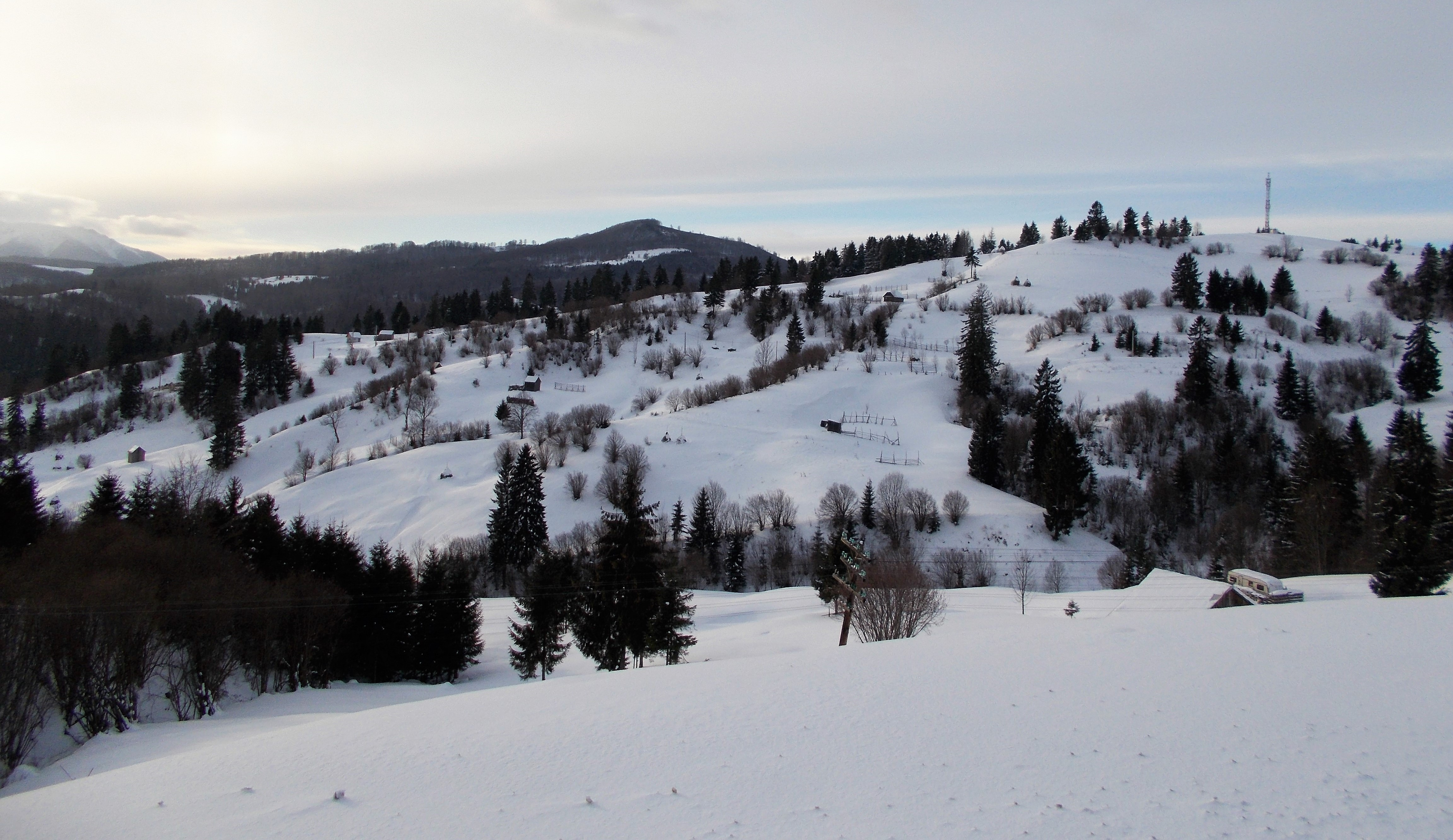 Șetref Pass